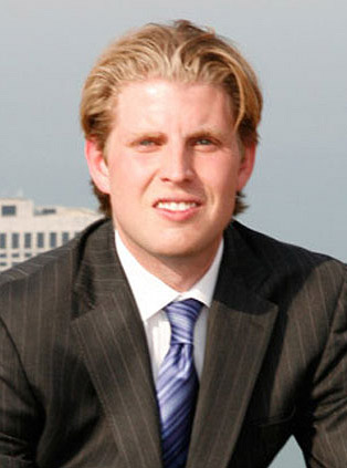 Photo of Eric Trump atop Trump International Hotel & Tower, Chicago.